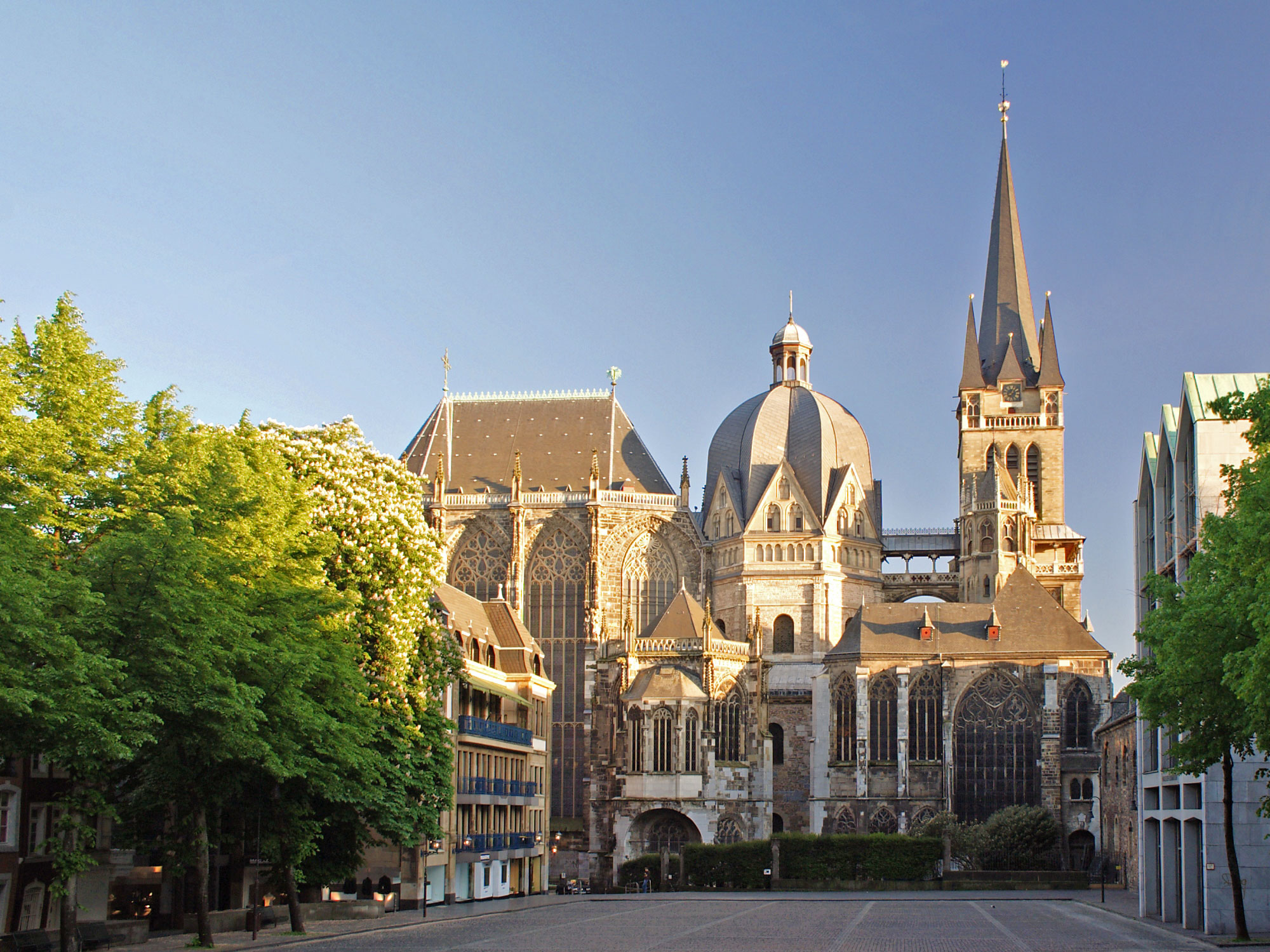 The cathedral in Aachen, viewed from north at evening. The oldest part of the church (built around the year 800) has an octagonal shape and can be seen in the middle. The gothic part on the left was built around 1350.